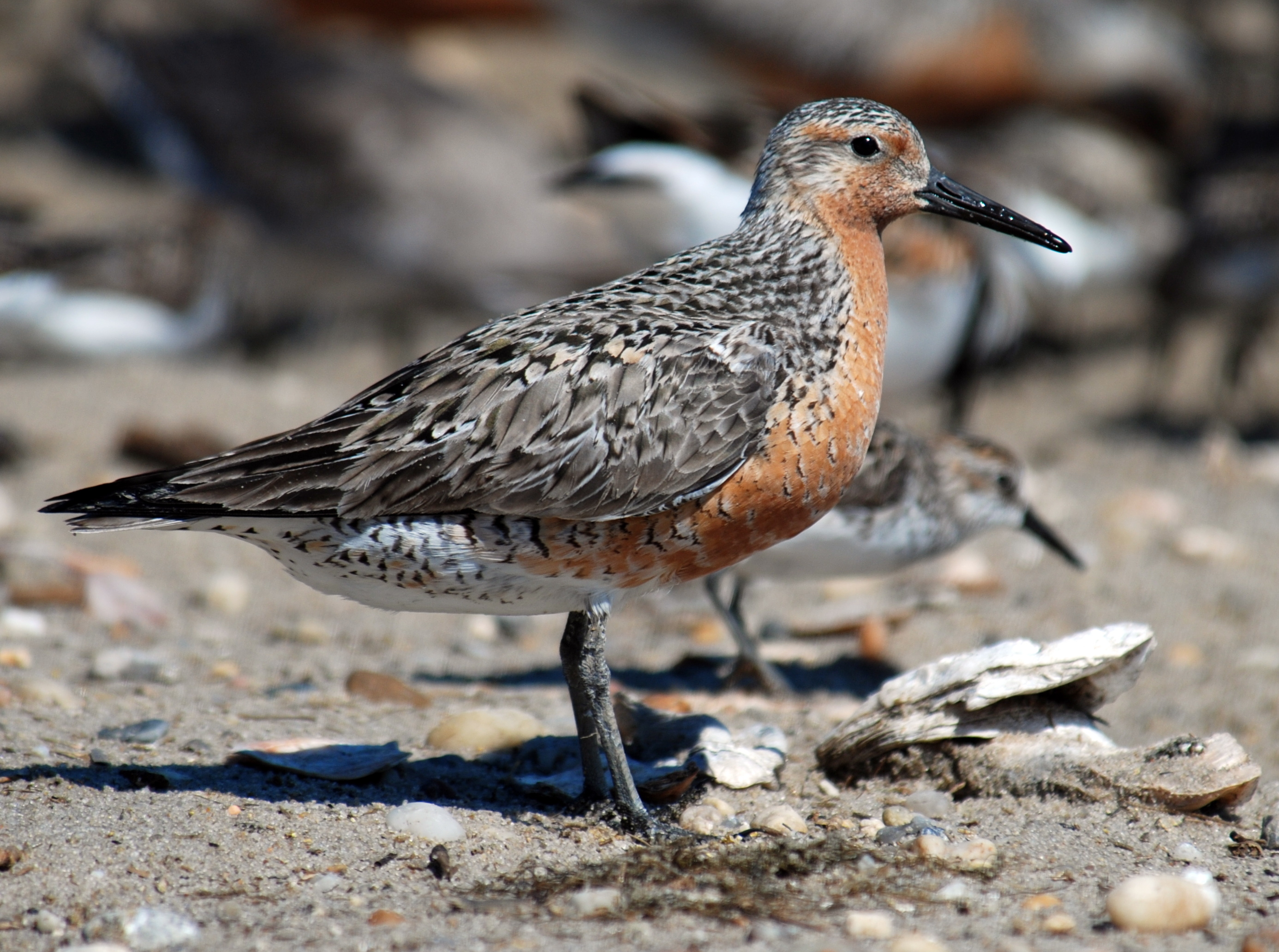 Red Knot, Calidris canutus, at Mispillion Harbor, Delaware.